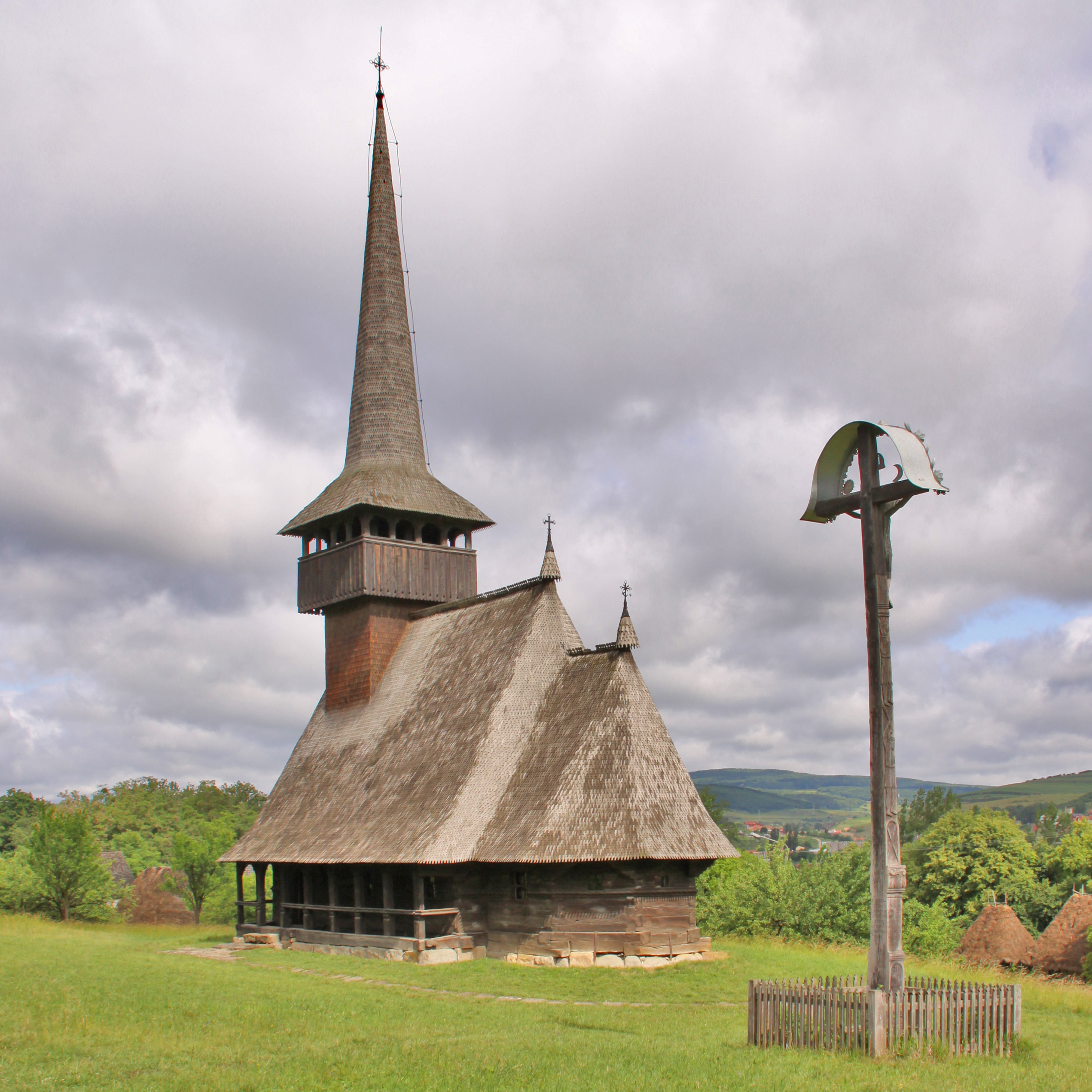 Wooden church in Cizer, Cluj